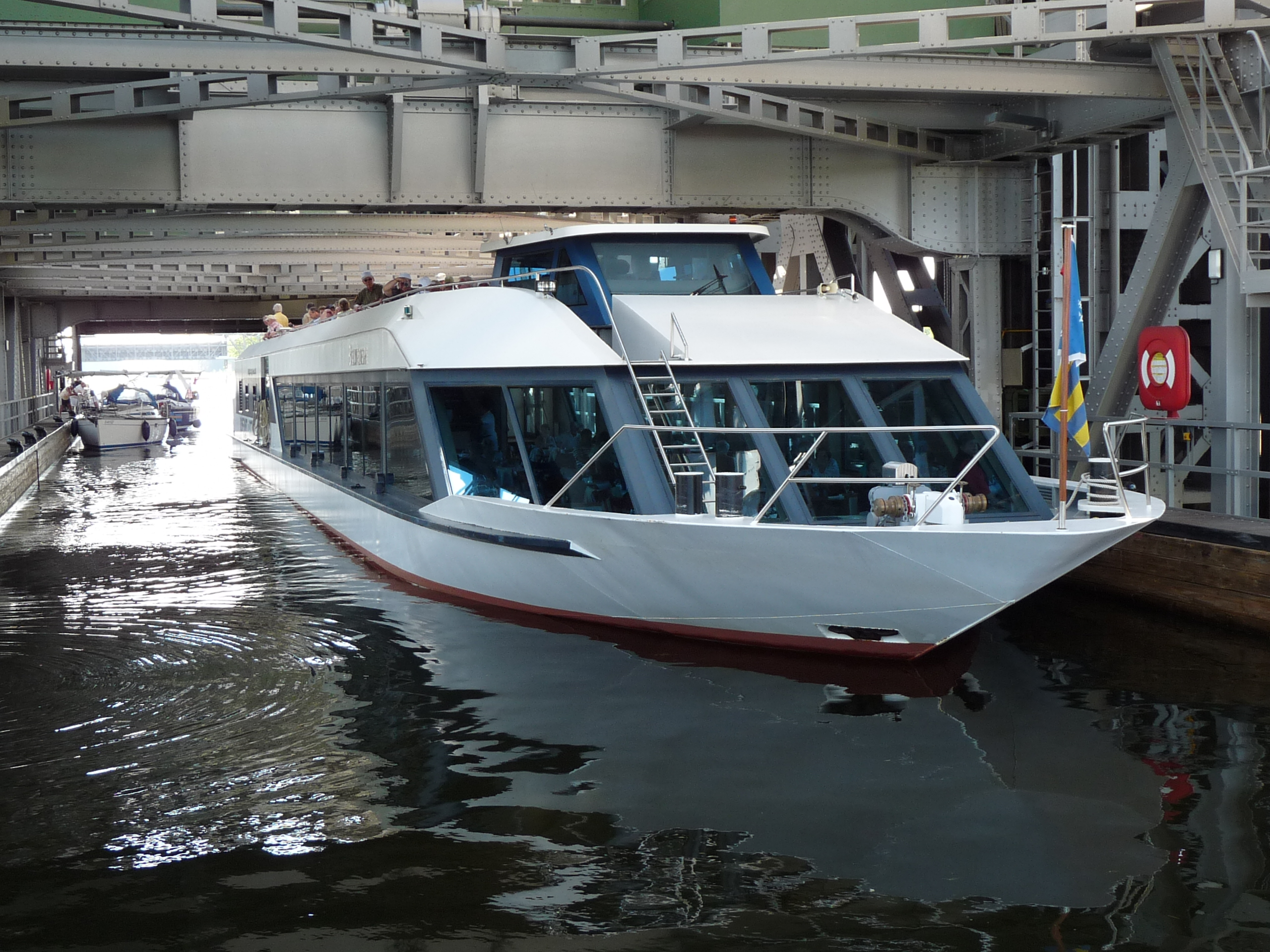 Passenger boat Belvedere of Weiße Flotte Potsdam in the boat lift Schiffshebewerk Niederfinow.